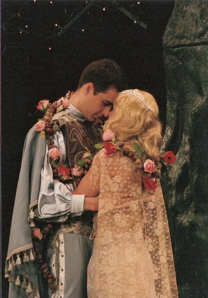 Soma Olasz Szabó and Bea Lass.